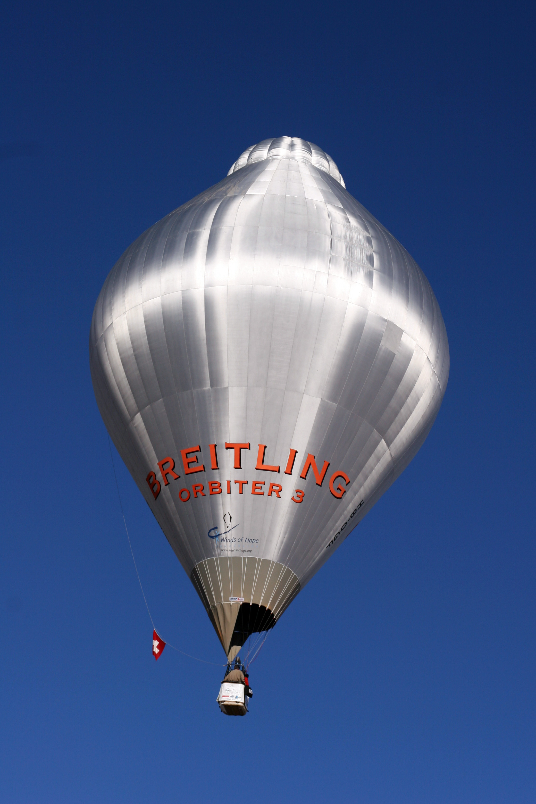 A copy of the balloon "Breitling Orbiter 3" shot during the 2007 Chateau d'Oex meeting by jide.